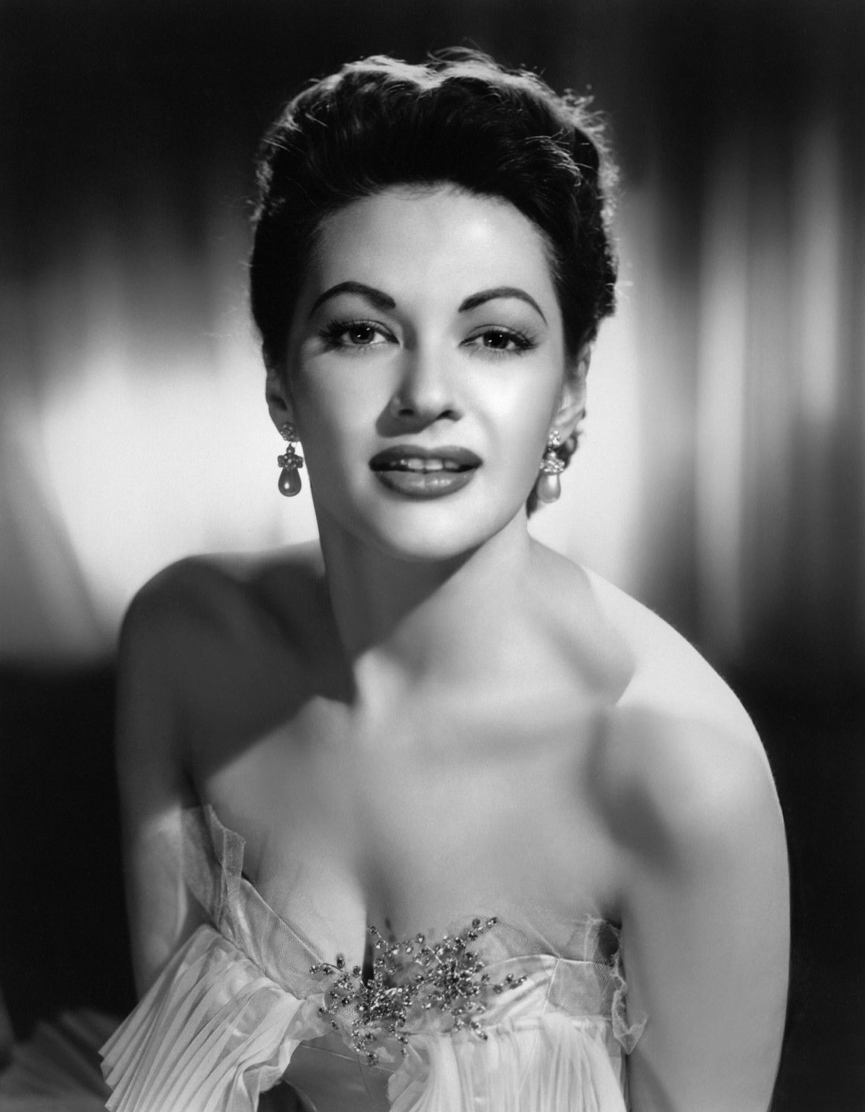 Publicity photo of Canadian-American actress Yvonne De Carlo, circa 1955.